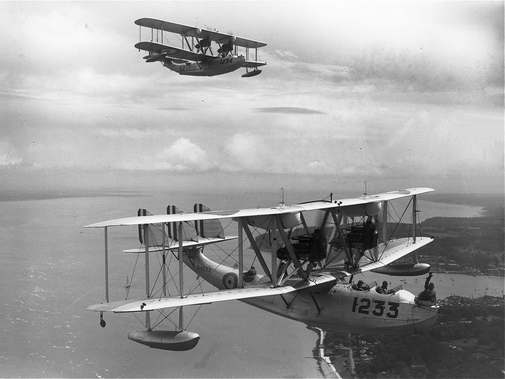 Supermarine Southampton, british seaplane, 1925 The Supermarine Southampton was one of the most successful flying boats of the between-war period. It was a development of the Supermarine Swan, which was used for a 10 passenger service between England & France.